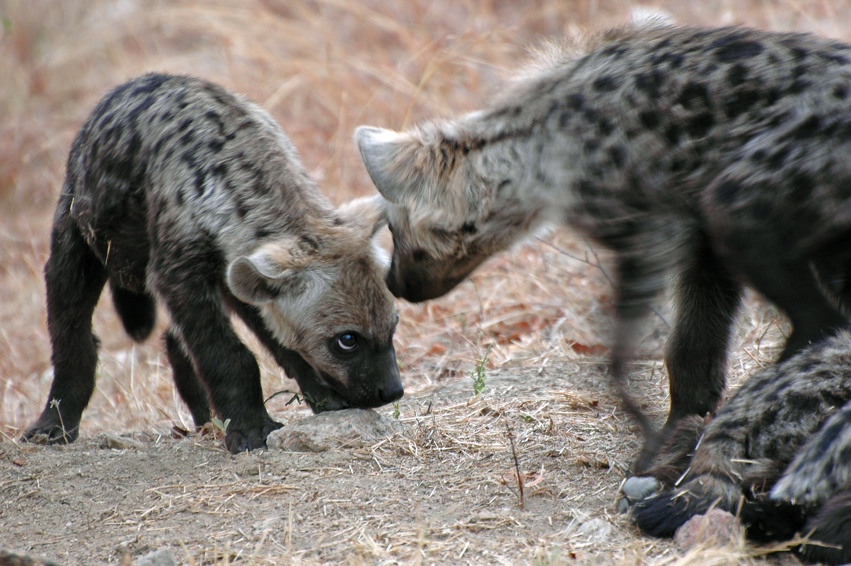 Spotted hyenas, Kruger National Park